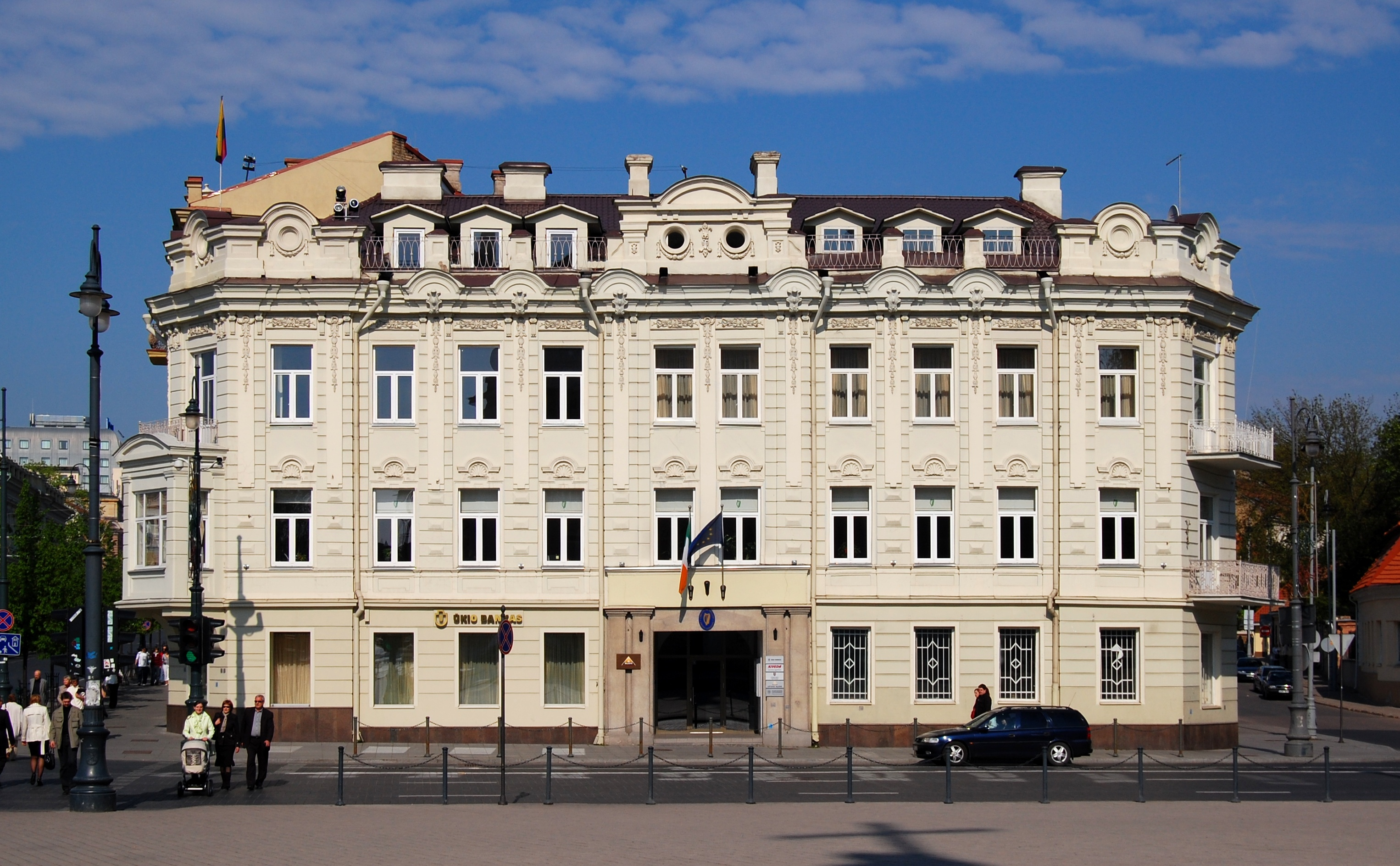 Building in Vilnius, Lithuania.